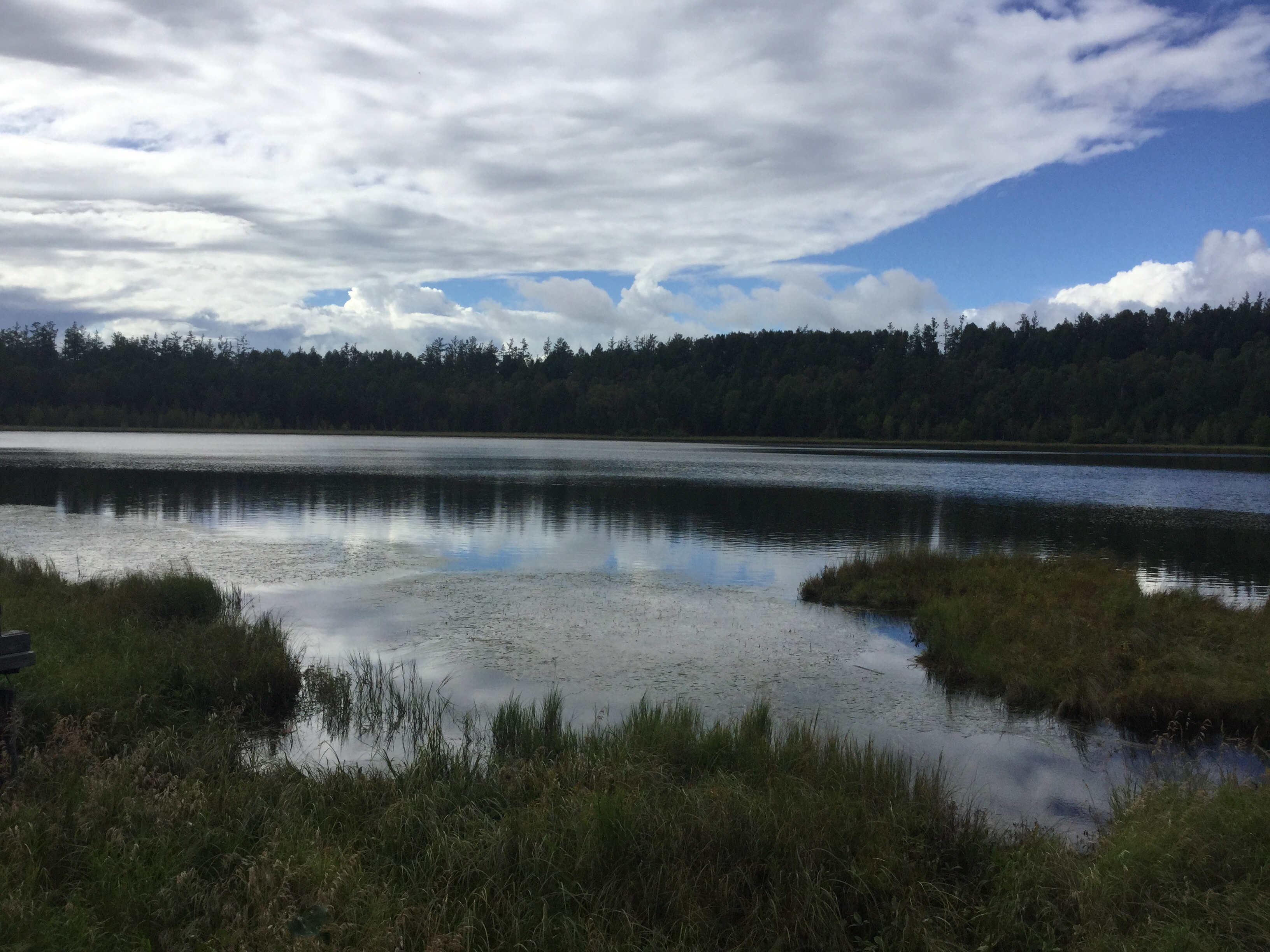 The heaven lake of Arxan.